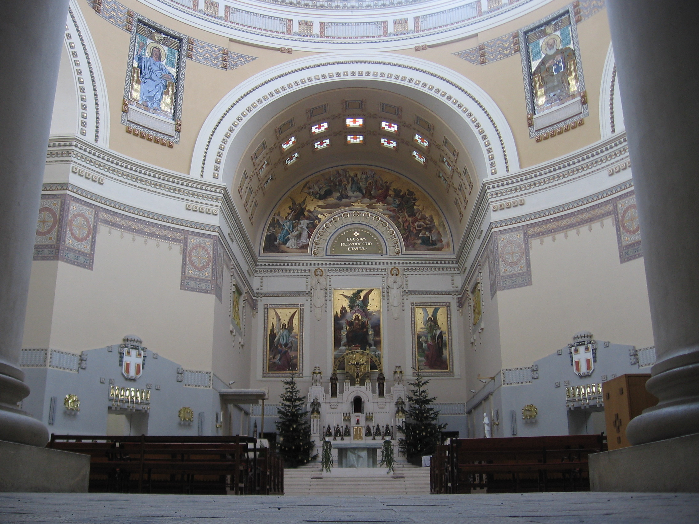 Inside view of the cementery church of holy Charles Borromeo at the viennese central cementery